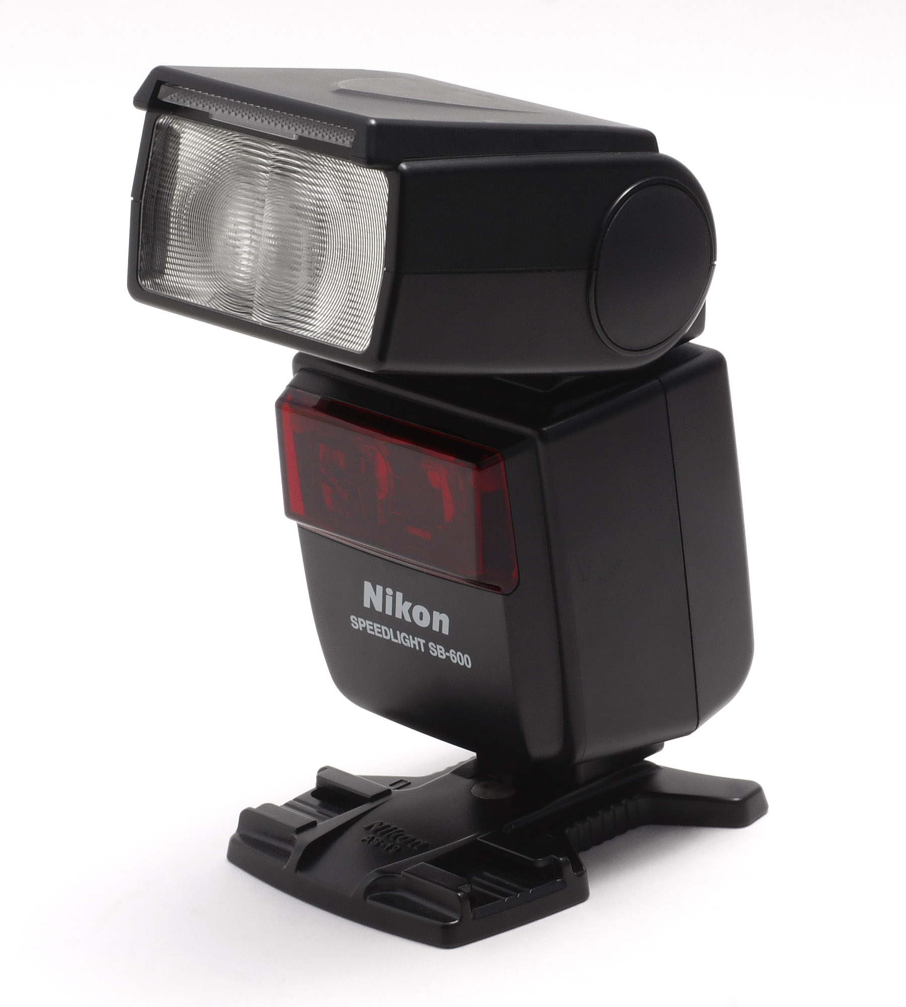 The Nikon Sb-600 Speedlight, as shown from the front and with the stand adapter.